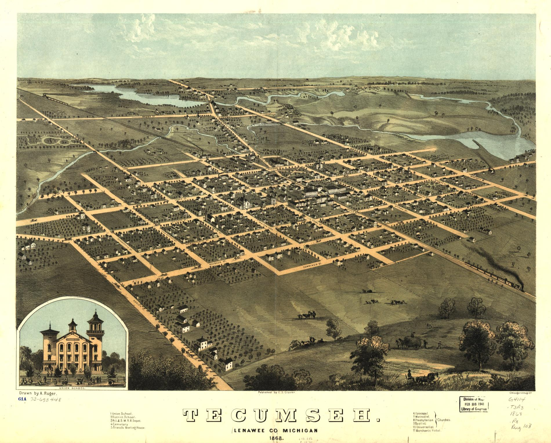 Panoramic view of Tecumseh, Michigan, 1868. This work is in the public domain because it was published in the United States prior to 1923.